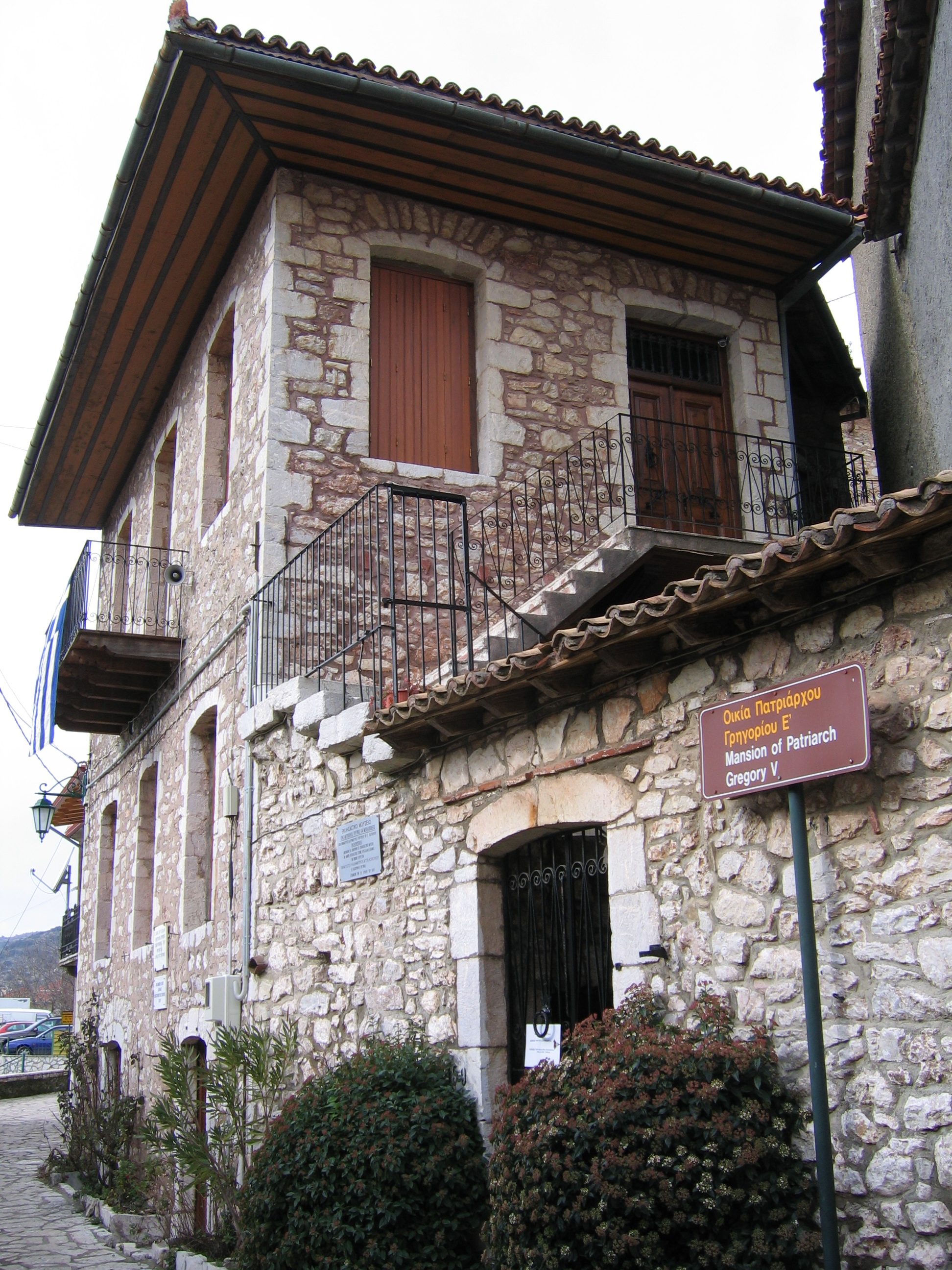 Mansion of Patriarch Gregory V at Dimitsana, Greece.